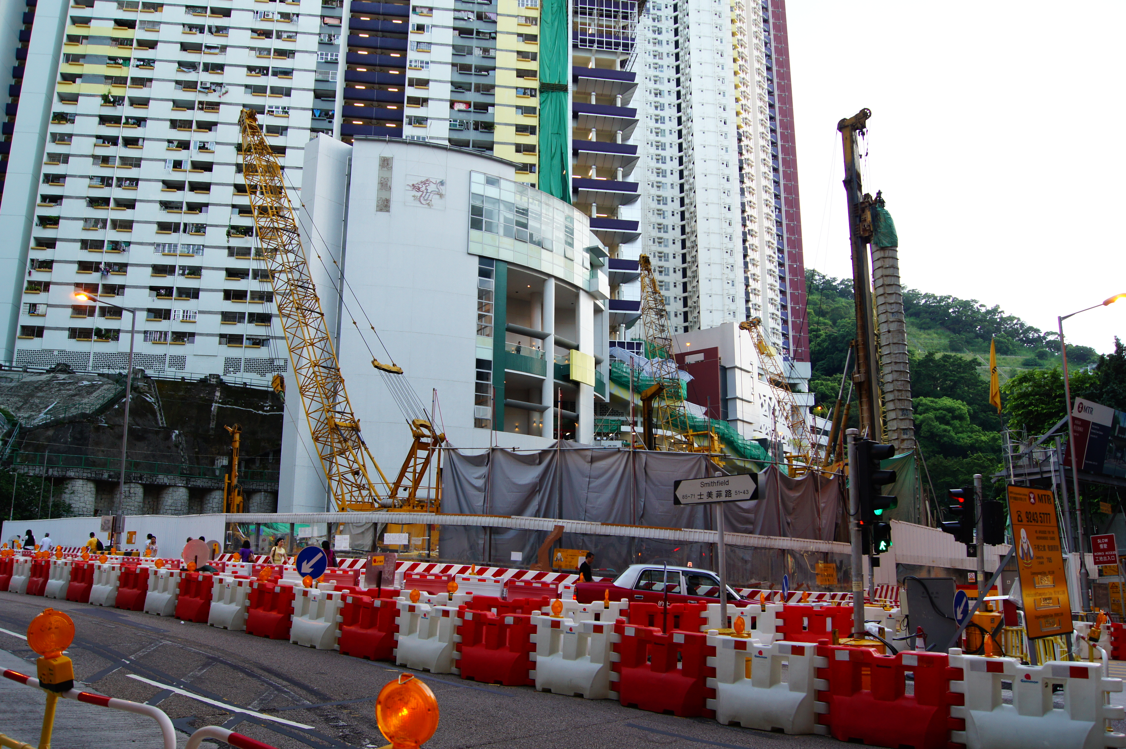 Construction site of MTR Kennedy Town Station